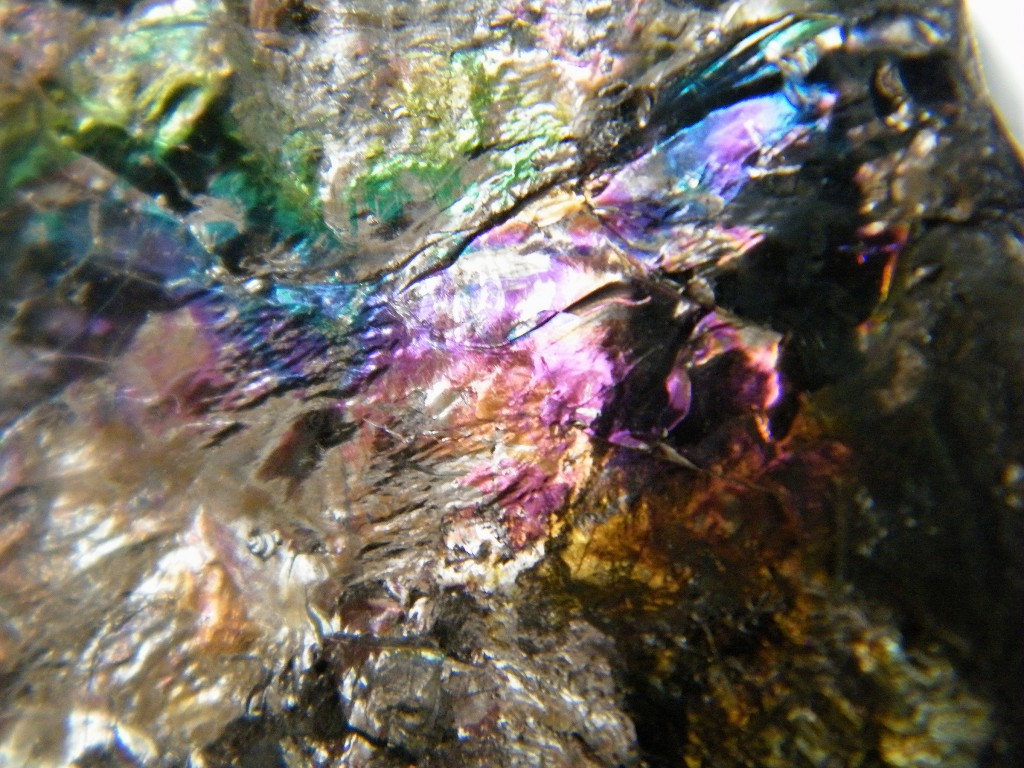 Anthracite coal (Dimensions: 2" x 1.5" field of view) Locality: Kuperavage Mine, Blythe Township, Schuylkill Co., Pennsylvania, USA original description: Iridescent anthracite coal, sometimes called "peacock coal," from a strip mine near New Philadelphia, Schuylkill County, Pennsylvania. Child photo of entire specimen.